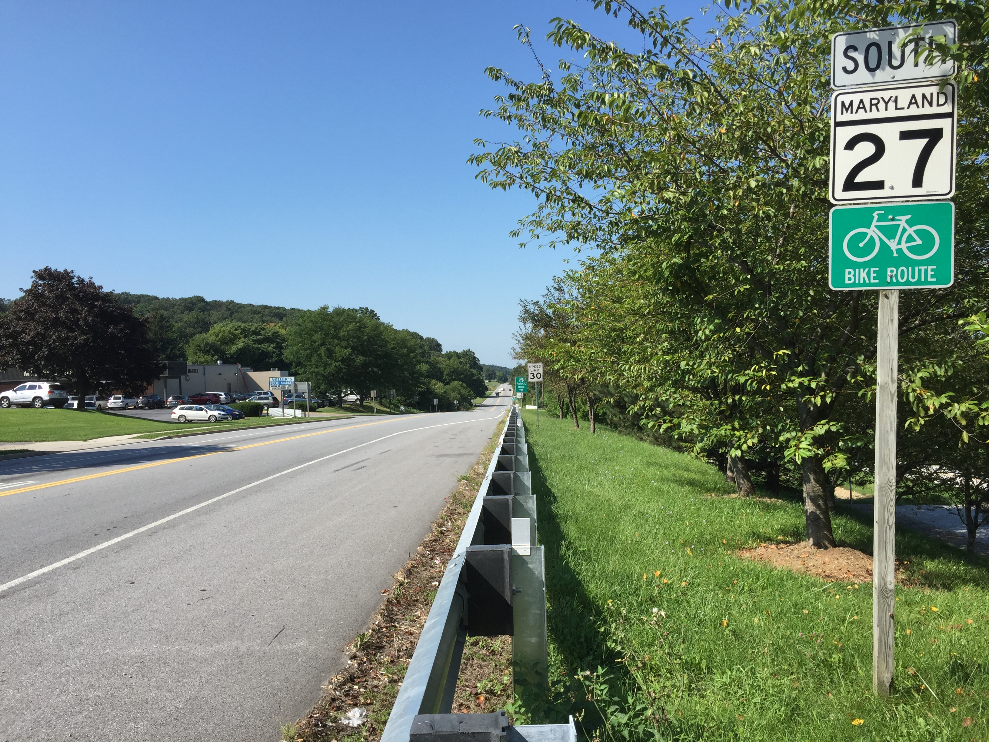 View south along Maryland State Route 27 (Manchester Road) at Maryland State Route 30 (Main Street) in Manchester, Carroll County, Maryland